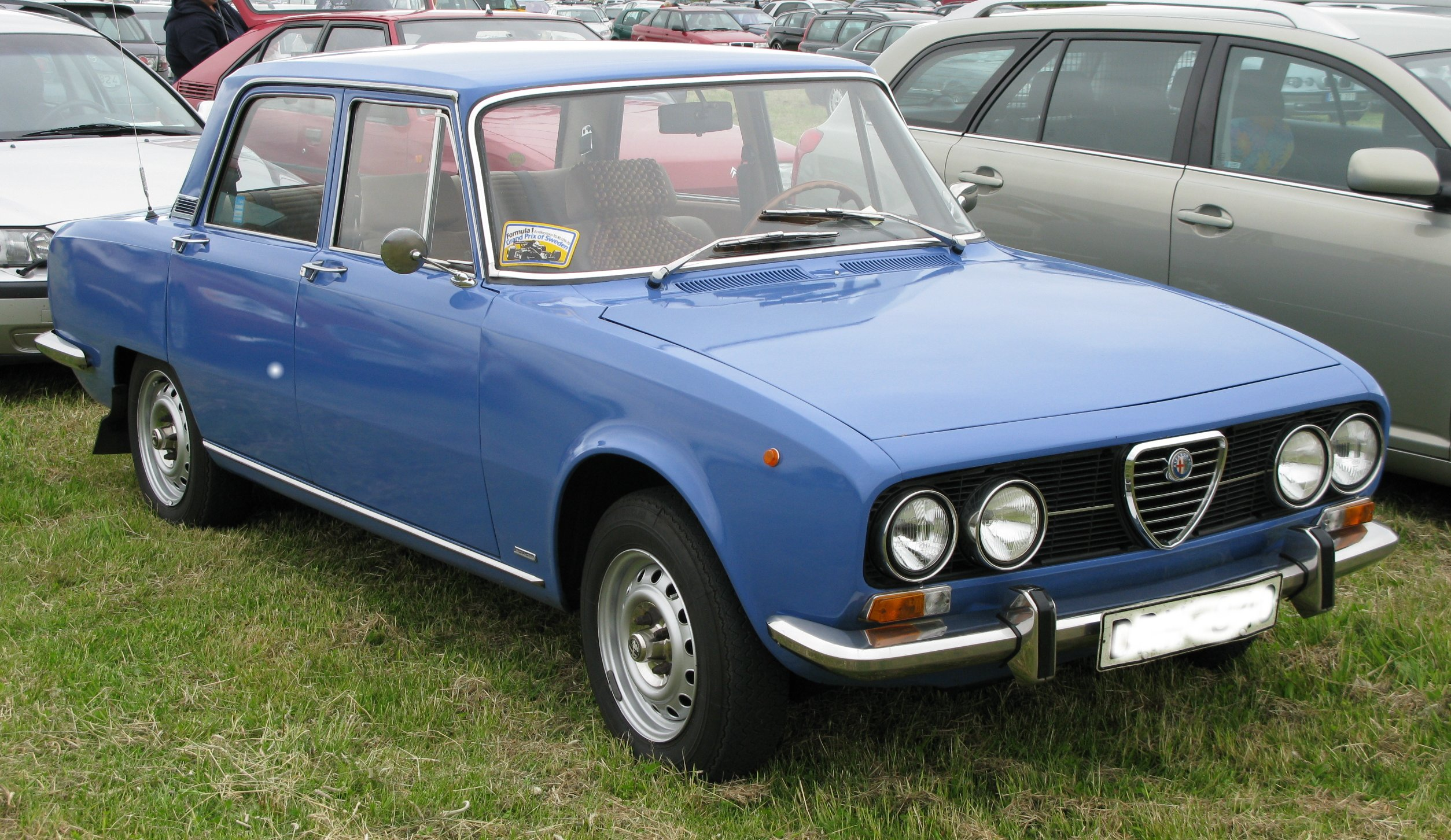 1974 Alfa Romeo 2000 Berlina.Event: Tjolöholm Classic Motor 2009